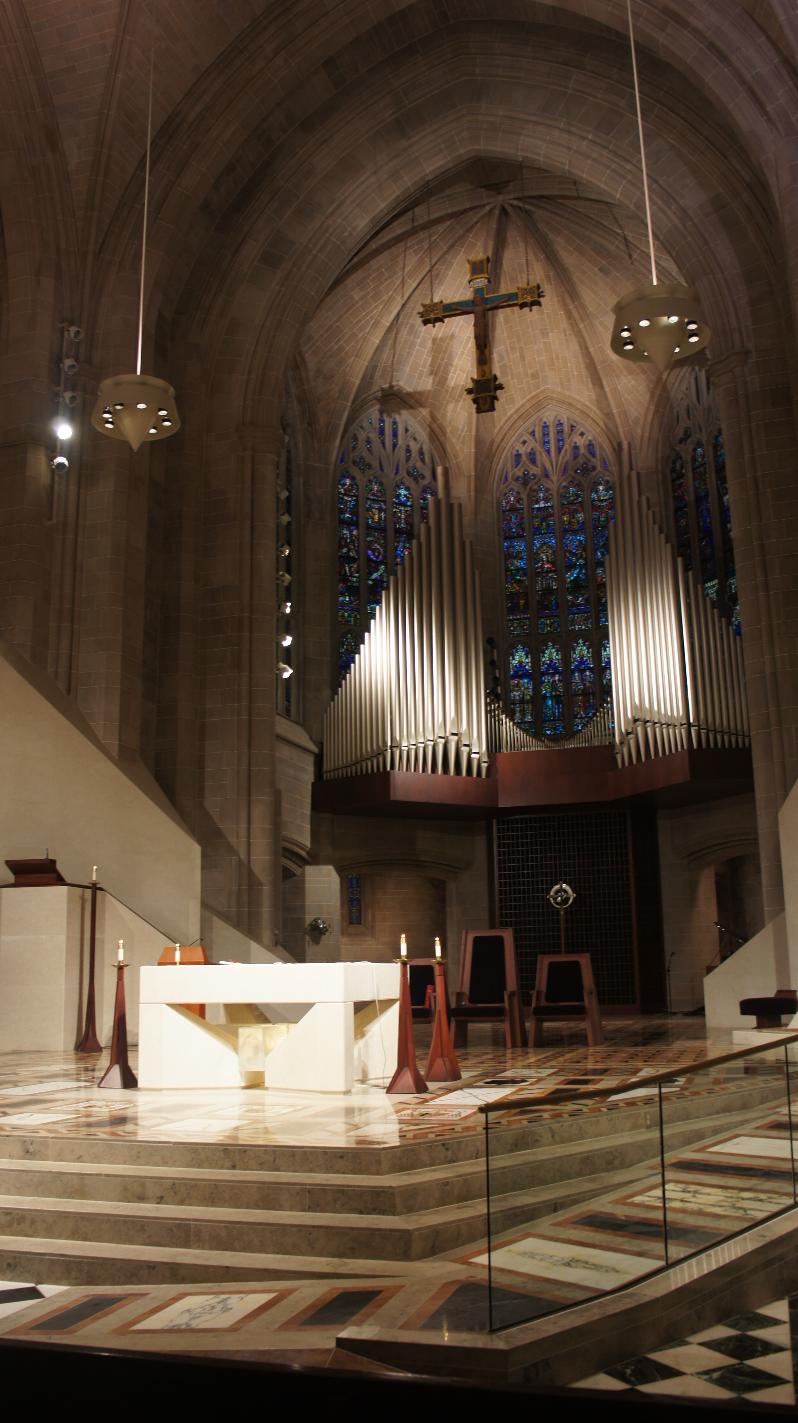 Category:Interior of Cathedral of the Most Blessed Sacrament (Detroit, Michigan)